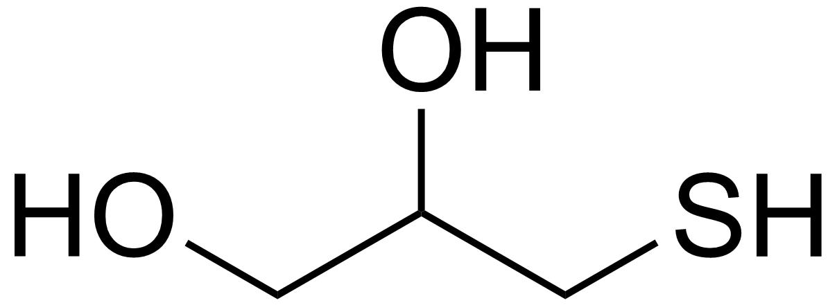 Chemical structure of 1-thioglycerol created with ChemDraw